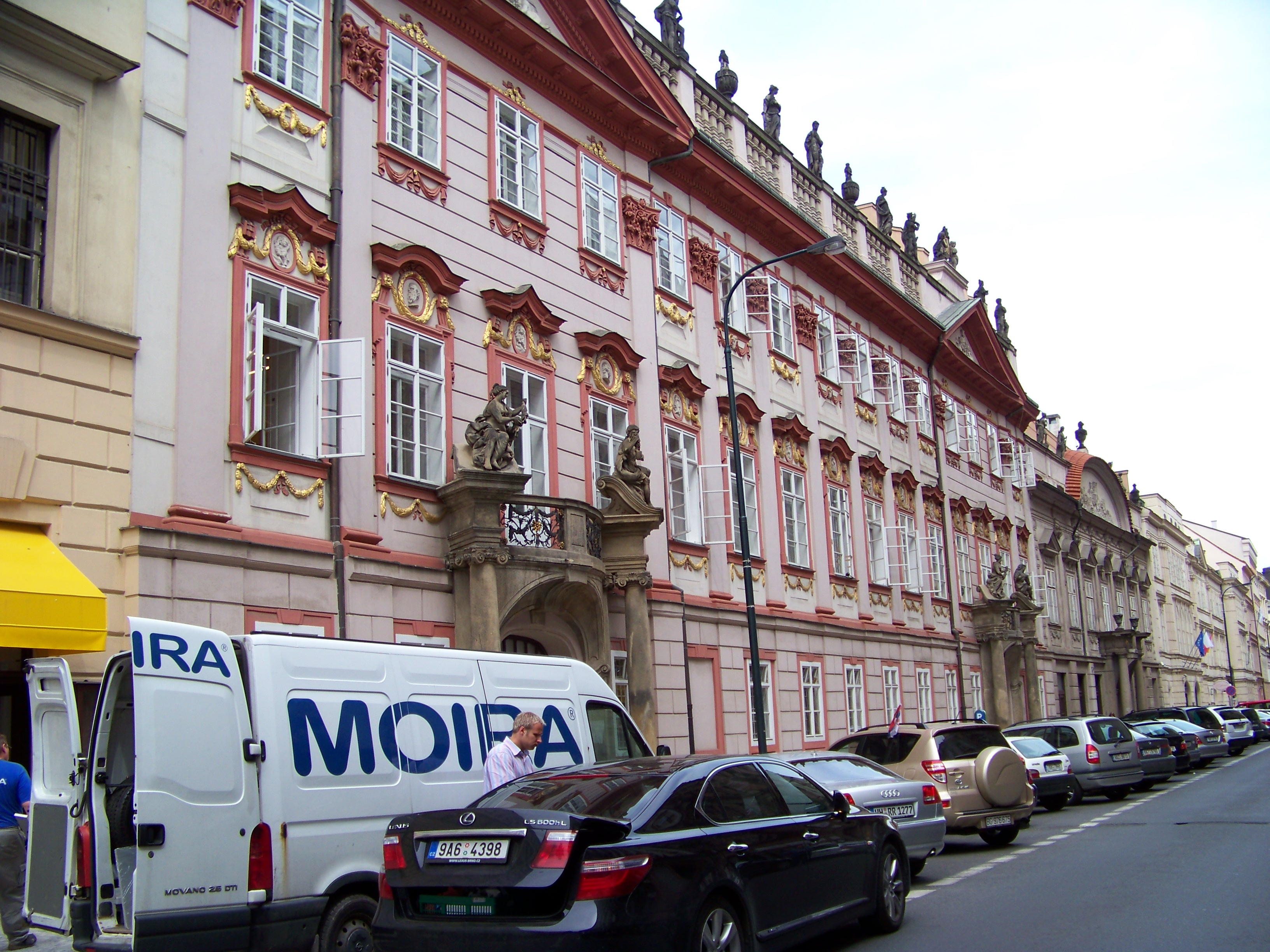 New Town, Prague, the Czech Republic. Hybernská street, Swéerts-Sporck Palace. - Google Maps - Google Earth